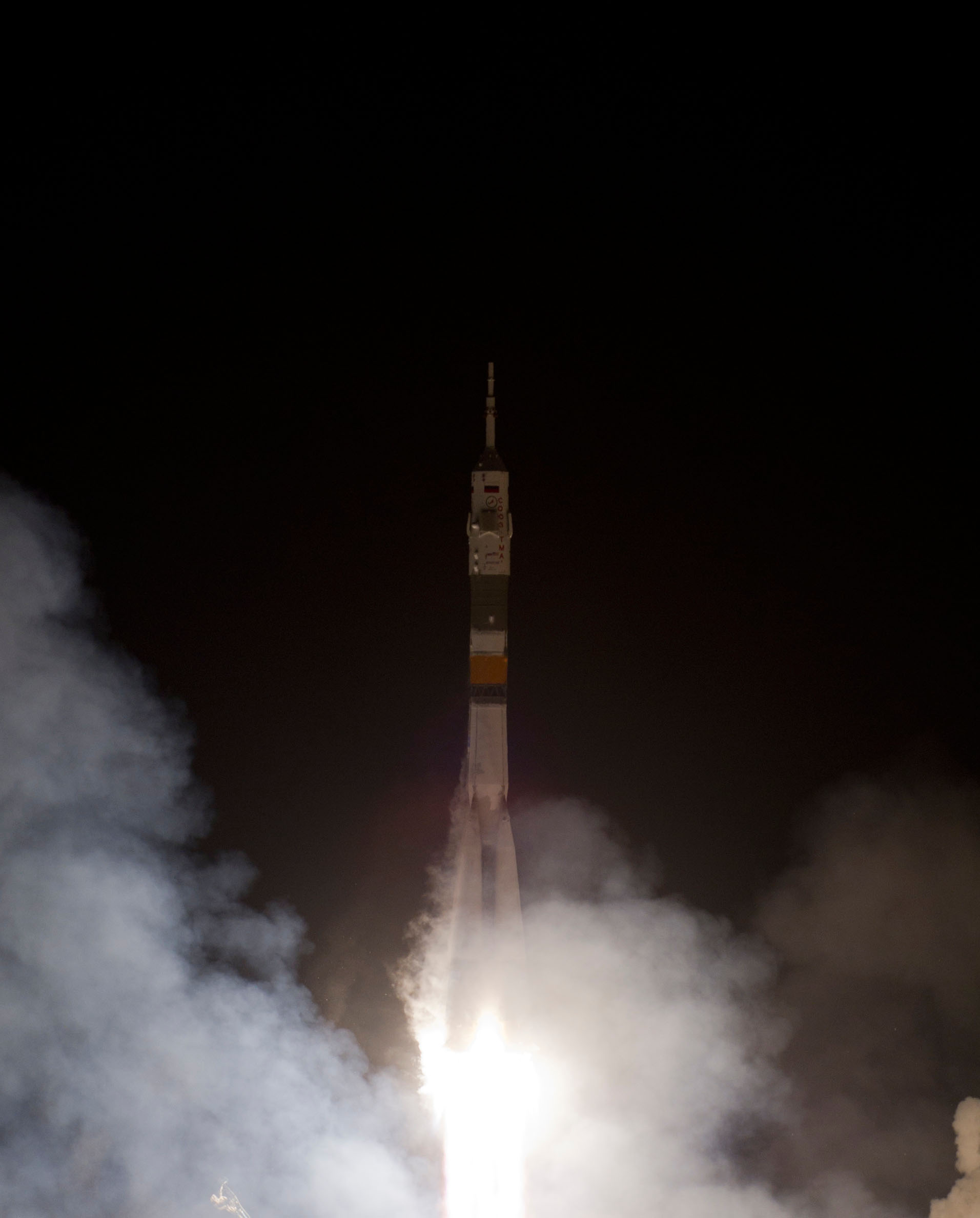 The Soyuz TMA-03M rocket launches from the Baikonur Cosmodrome in Kazakhstan at 7:16 p.m. (Kazakhstan time) on Dec. 21, 2011 carrying Expedition 30 Soyuz Commander Oleg Kononenko of Russia, NASA astronaut and Flight Engineer Don Pettit and European Space Agency astronaut and Flight Engineer Andre Kuipers to the International Space Station.